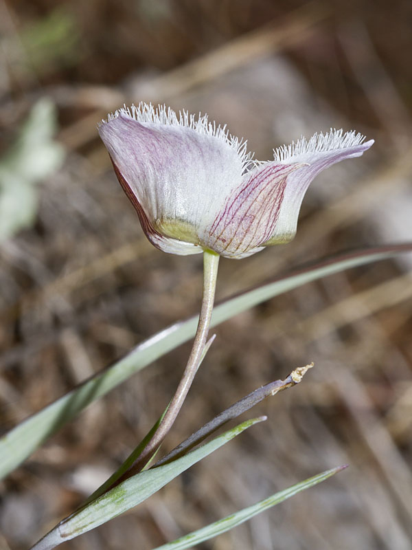 Calochortus tolmiei. One of eighty-some Mariposa Lily species. Eight Dollar Mountain, Josephine Co., OR, USA. June 4